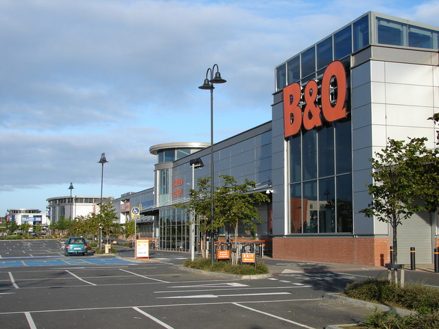 Ubiquitous Out of Town Scene. Yet more of the same stores seen in any town. Could be anywhere really. This is the Airside Business Park, outside Swords version.